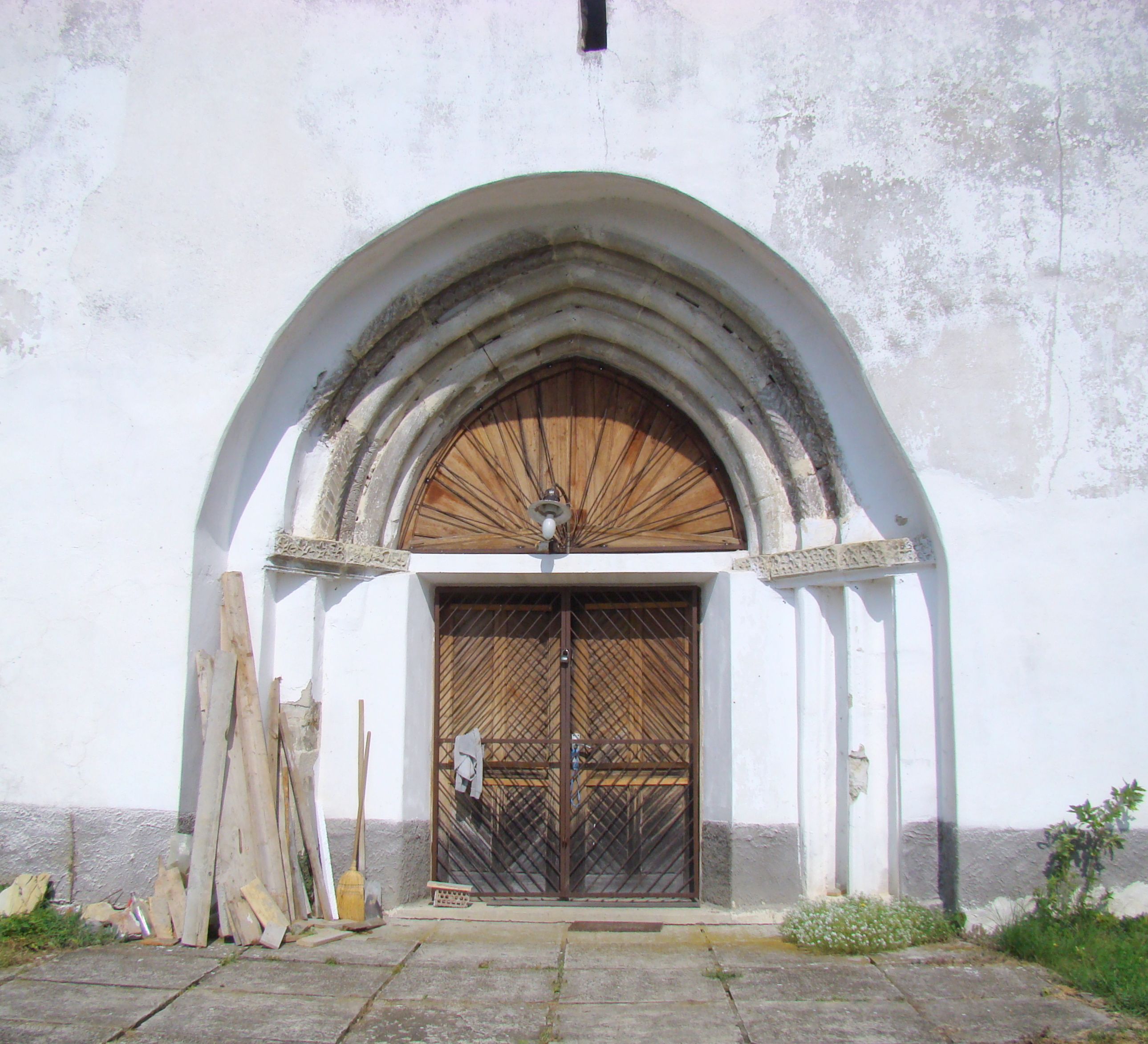 Lutheran church in Hălmeag, Brașov County, Romania